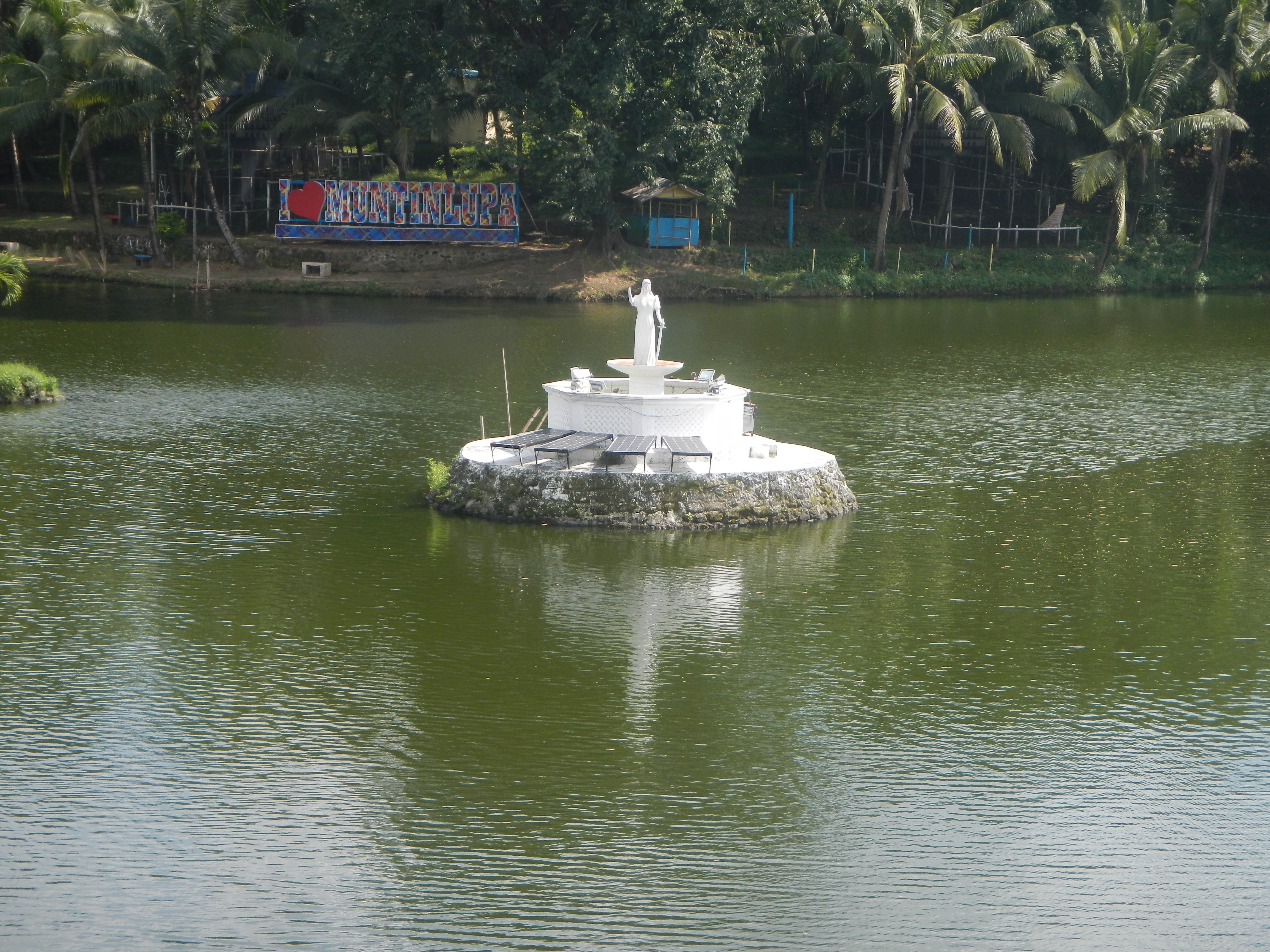 Iustitia National Bilibid Prison Reservation (Bureau of Corrections, Muntinlupa City) Eriberto B. Misa, Sr. monument Jamboree Lake (National Bilibid Prison Reservation, Bureau of Corrections, Muntinlupa City) Memorial for Peace (National Bilibid Prison Reservation, Bureau of Corrections, Muntinlupa City-Gunma-Machi, Japan) Grotto and Sunken Garden (National Bilibid Prison Reservation, Bureau of Corrections, Muntinlupa City) Itaas Elementary School (National Bilibid Prison Reservation, Bureau of Corrections, Muntinlupa City) South Luzon Expressway National Road (Alabang, Bayanan, Putatan and Poblacion), Muntinlupa City National Road (Tunasan, Muntinlupa City) Barangays Poblacion 14°22'48"N 121°1'53"E City of Muntinlupa Poblacion, Muntinlupa New Bilibid Prison Bureau of Corrections (Philippines) Putatan, Muntinlupa Tunasan Philippine highway network (Note: Judge Florentino Floro, the owner, to repeat, Donor Florentino Floro of all these photos hereby donate gratuitously, freely and unconditionally Judge Floro all these photos to and for Wikimedia Commons, exclusively, for public use of the public domain, and again without any condition whatsoever).